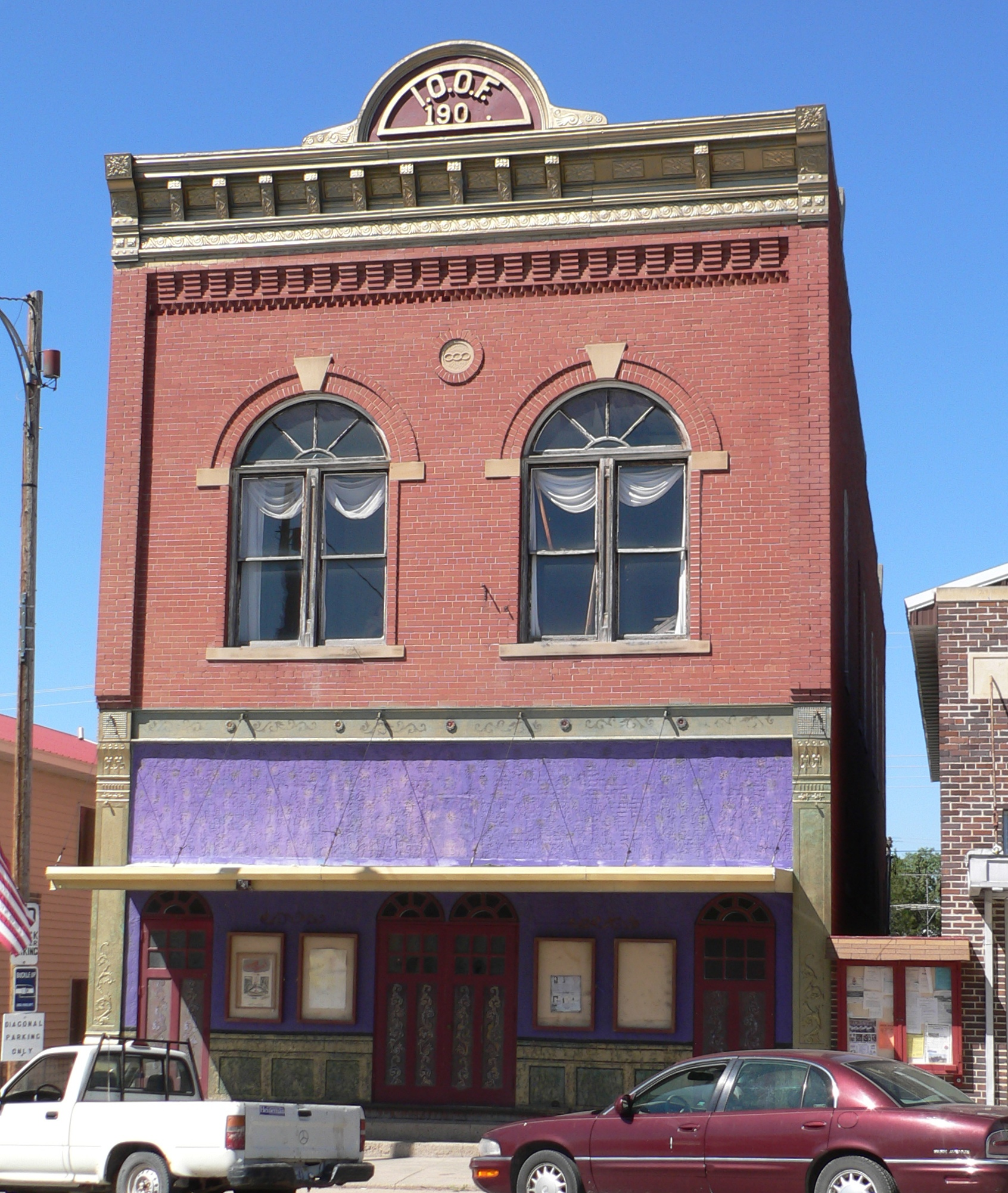 IOOF building, located on west side of Main Street (Nebraska Highway 29) between 2nd and 3rd Street in Harrison, Nebraska.